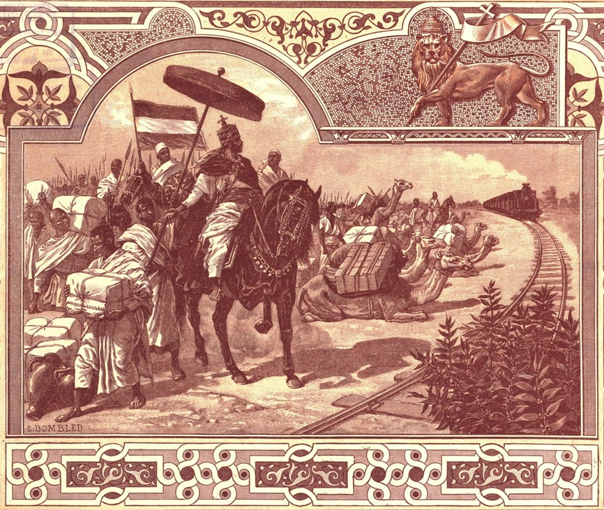 The elaborate engraving on the bond, by the illustrator L. Bombled, shows Menelik II inspecting the railway with his entourage and a caravan of camels.